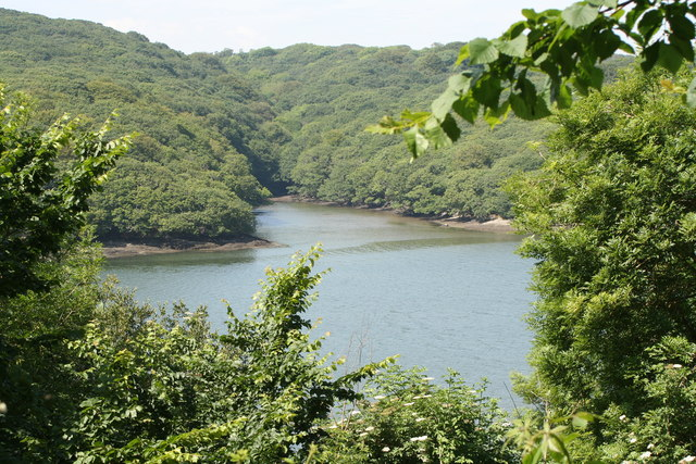 Looking across the Helford River towards the inlet at Merthen Wood Seen from the path to Tremayne Quay. Merthen Wood is an example of ancient coppiced oak woodland and is a Site of Special Scientific Interest. It stretches for two kilometres along the north shore of the Helford, occupying the peninsula between the main river and Polwheveral Creek, and is one of the largest remaining oak woodlands in Cornwall. There is no public access to the wood, but it can be enjoyed from the river.